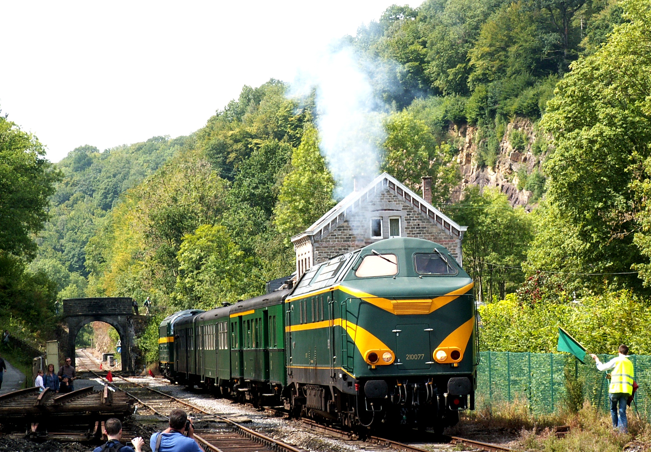 Belgian diesel loc Class 60 (formerly type 210) preserved by "Patrimoine Ferroviaire et Touristique" (PFT) heritage railway as seen leaving station Dorinne-Durnal ahead of M1 an M2 passenger carriages on 2011-08-15. Notice the flag based signaling strategy used when the touristic line is shared by many trains (which is the case every 15th of August).